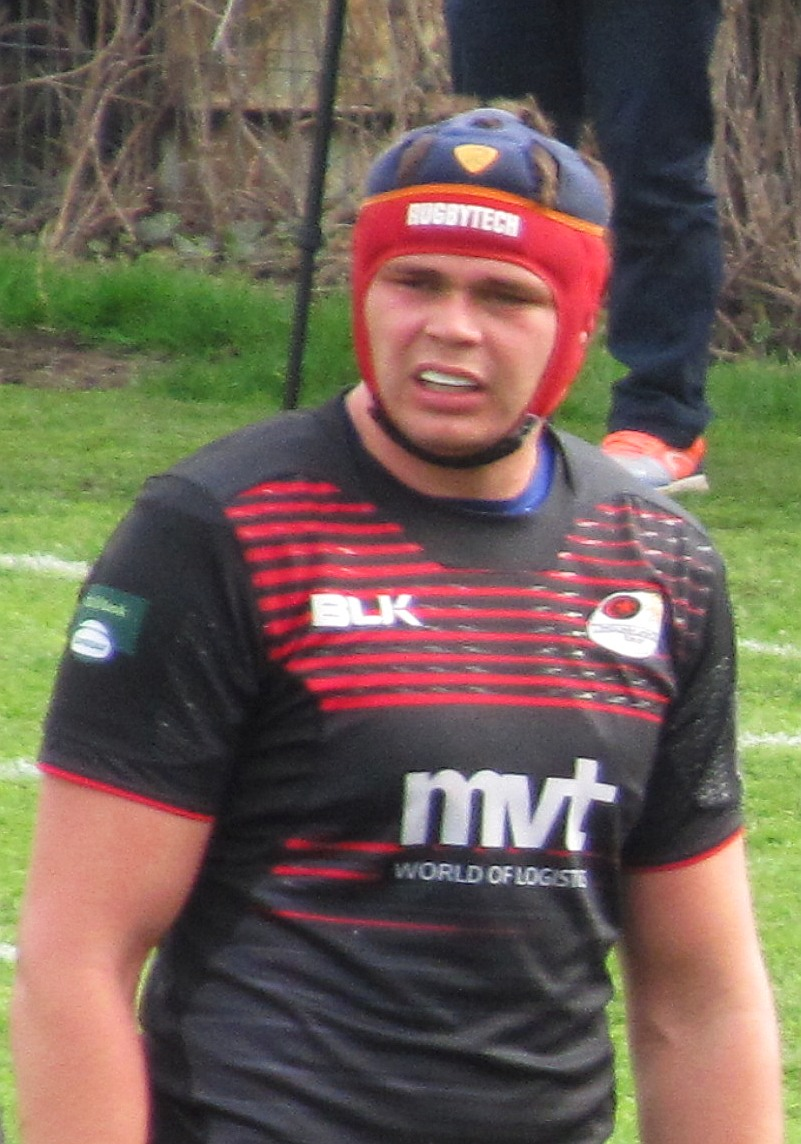 Romanian rugby union football player Marius Iftimiciuc during the 2019 Cupa României Final match between his team, Timișoara Saracens, and rivals CSM București in March 2019